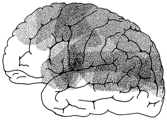 Kertesz, A., & Lesk, D. (1977). Isotope Localization of Infarcts in Aphasia. Archives of Neurology, 34(10), 590-601.